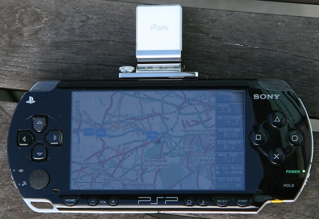 A PlayStation Portable with OpenStreetMap data on screen. (Map is view of West London. GPS is PSP-290. Software is "Map This!".)